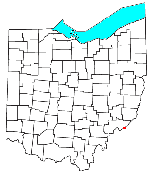 Locator map of the unincorporated community of Newport in Washington County, Ohio, United States.